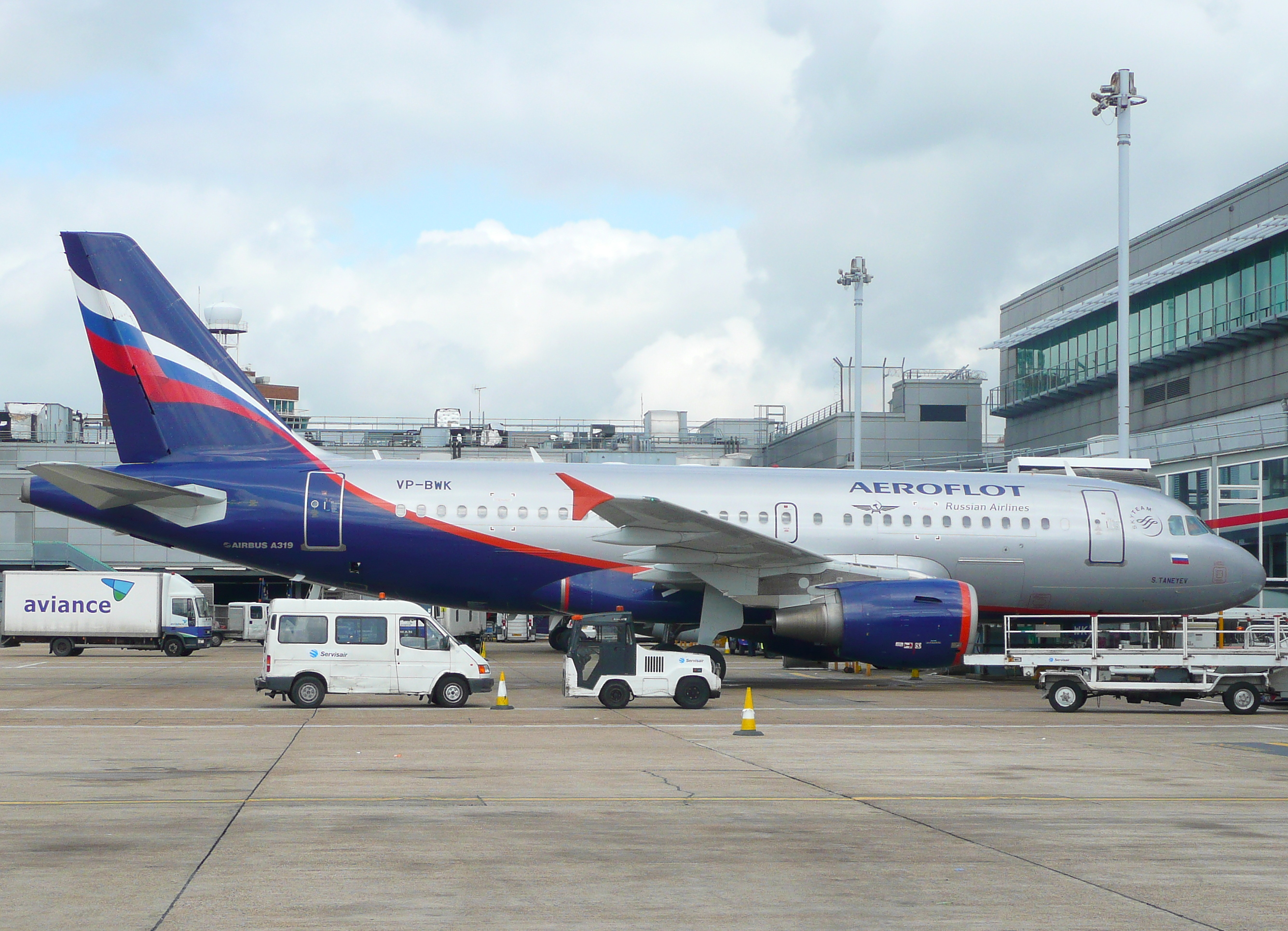 VP-BWK A319 Aeroflot on std 204.